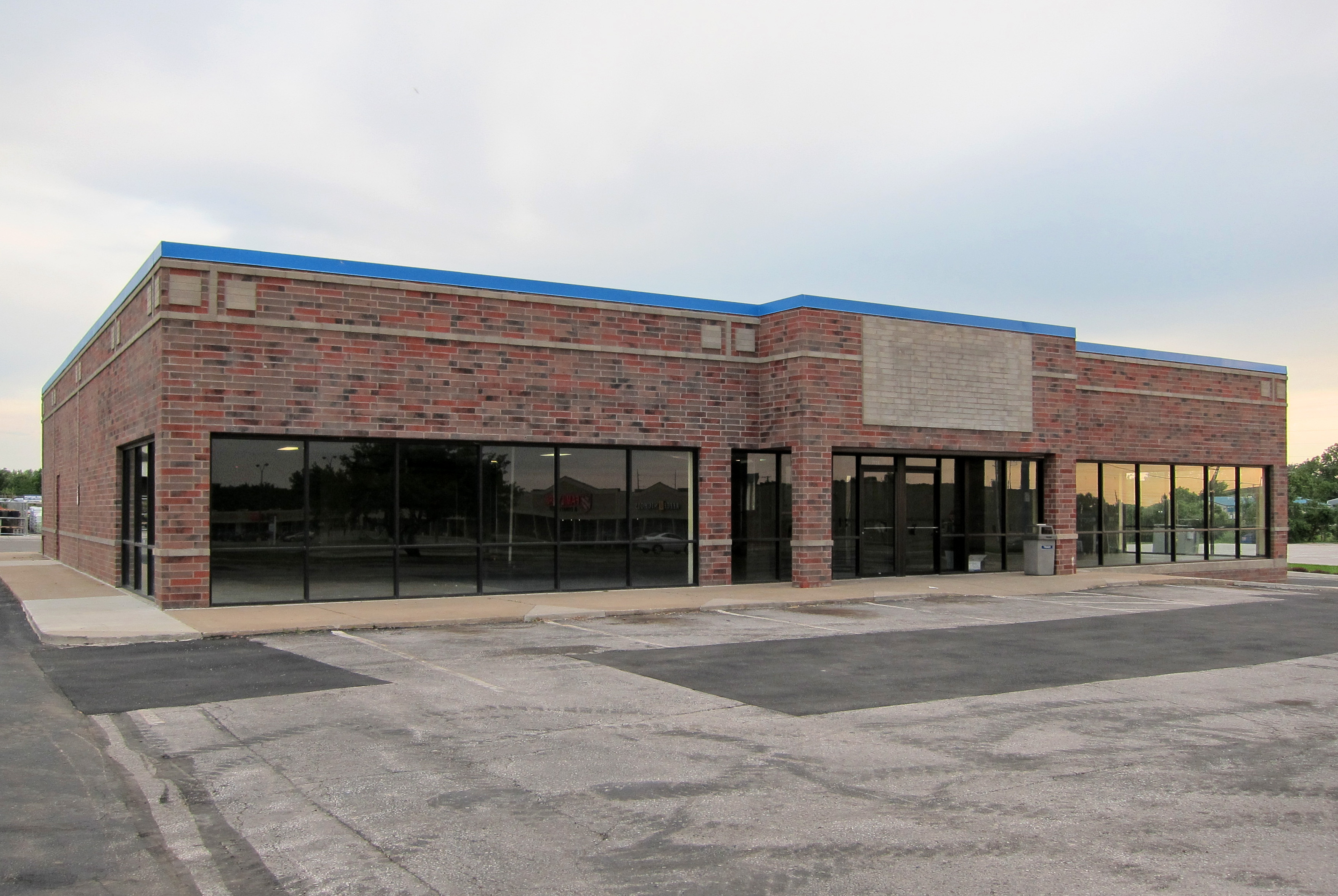 A BlockBuster video rental store that has been closed and stripped out. Located in the American Midwest, this purposefully-built store is an example of a BlockBuster building design from the '90s.